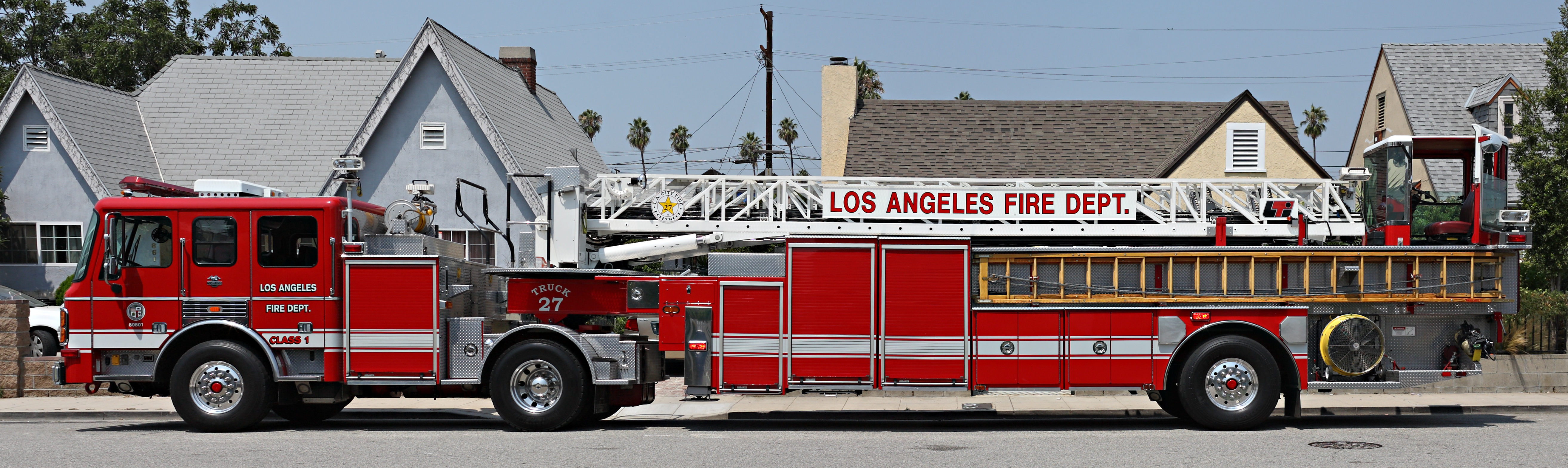 A Los Angeles Fire Department (LAFD) ladder truck - no. 27. Vehicle is a 'tractor drawn aerial' with separate rear wheel steering. A two image stitch